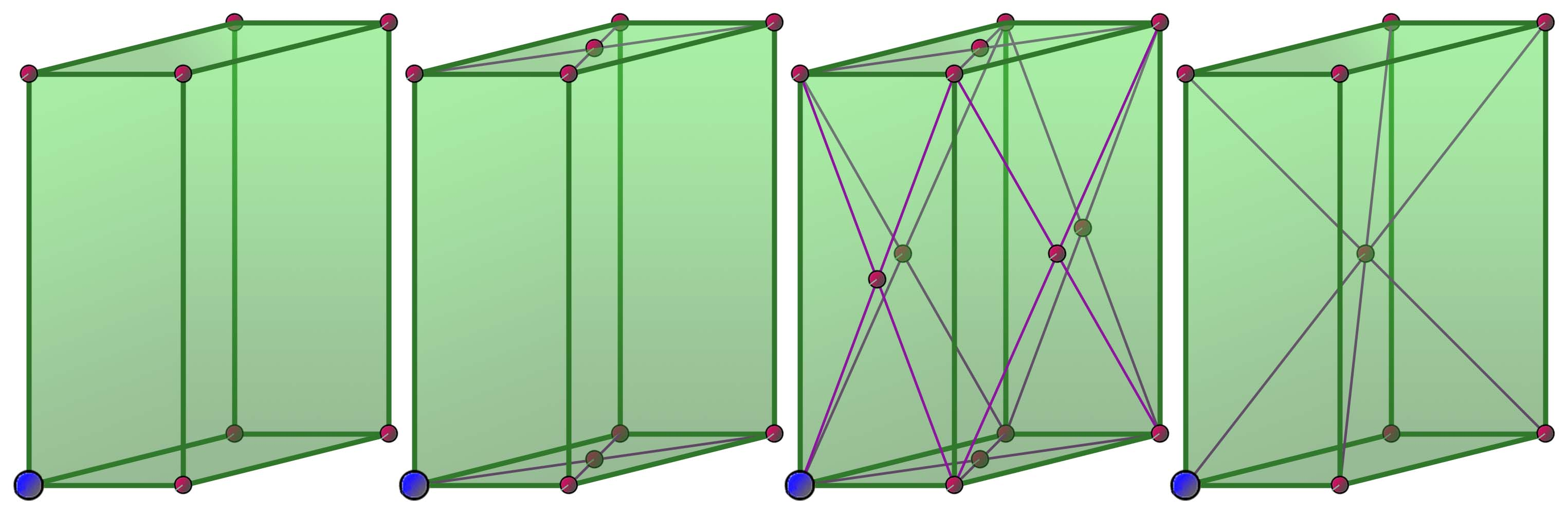 Orthorhombic crystal structures